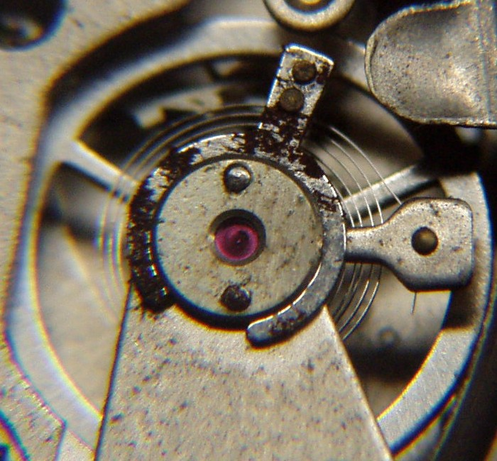 Stone(ruby) in wristwatch. 腕時計の軸受け石（ルビー）